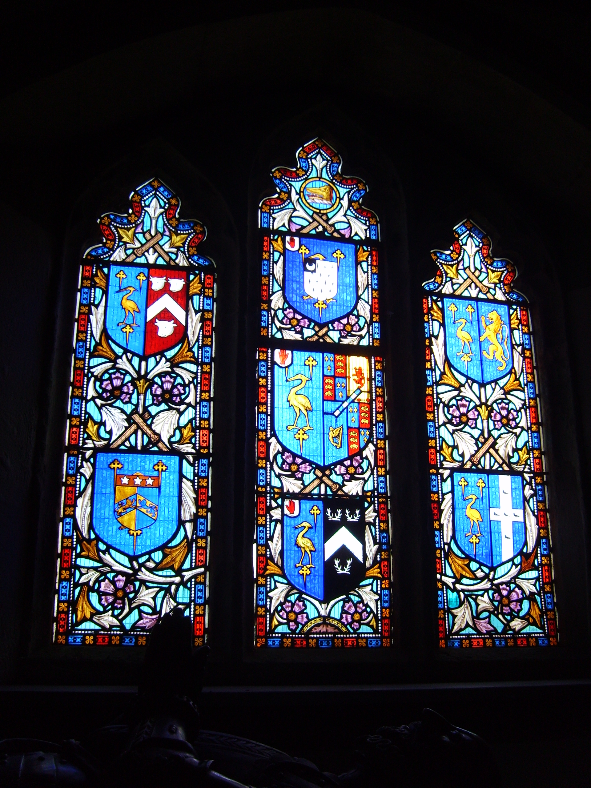 St. Mary the Virgin's Church, Brading, Isle of Wight, England. Arms of the Oglander family. Central column top to bottom: The top central shield are the arms of Sir William Oglander, 3rd Baronet (c. 1680–1734) who married Elizabeth Strode, the daughter and heiress of Sir John Strode of Parnham, whose arms he shows as an inescutcheon of pretence Ermine, on a canton sable a crescent argent. The cenntral shield in the middle column shows the arms of Sir William Oglander, 6th Baronet (1769-1852) who married Lady Maria (Mary) Anne FitzRoy (1785–1855), a daughter of George Henry FitzRoy, 4th Duke of Grafton (1760-1844). The shield at bottom middle shows Oglander impaling Coxe (Sable, a chevron between three attires of a stag fixed to the scalp argent) for Sir John Oglander, 4th Baronet (c. 1704–1767) who married Margaret Hippisley-Coxe a daughter of John Hippisley-Coxe of Ston Easton Park, Somerset. Right column, top to bottom: Bottom: More of Losely, Surrey: Azure, on a cross argent five martlets sable (arms of Sir John Oglander, in 1624 Deputy Governor of the Isle of Wight, who married Frances More, a daughter of Sir George More of Losely, Surrey (The English Baronetage: Containing a Genealogical and Historical ..., Volume 1 By Arthur Collins[1])